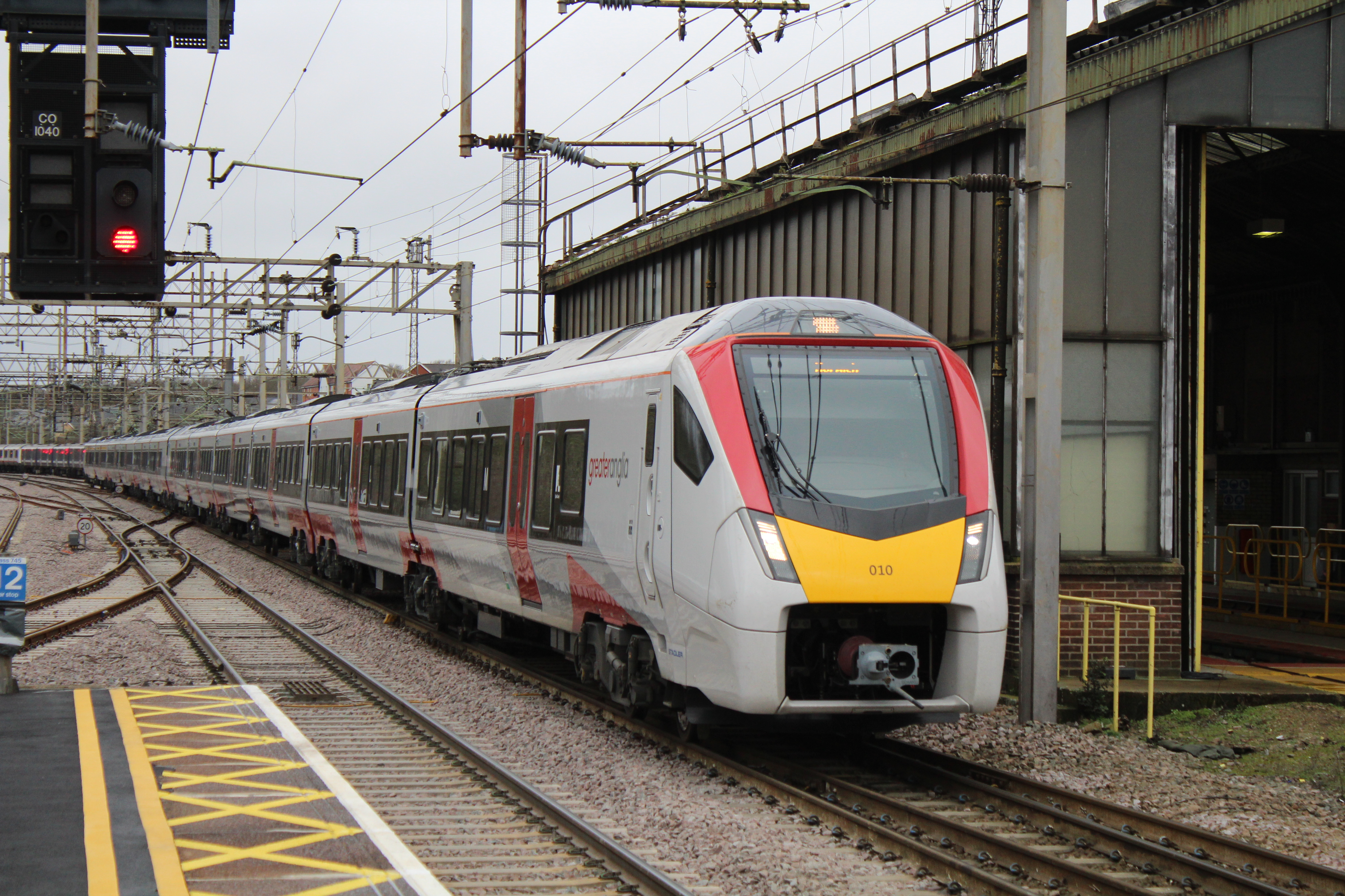 Greater Anglia's 745010 'FLIRT' arrives into Colchester working a Liverpool Street - Norwich service.